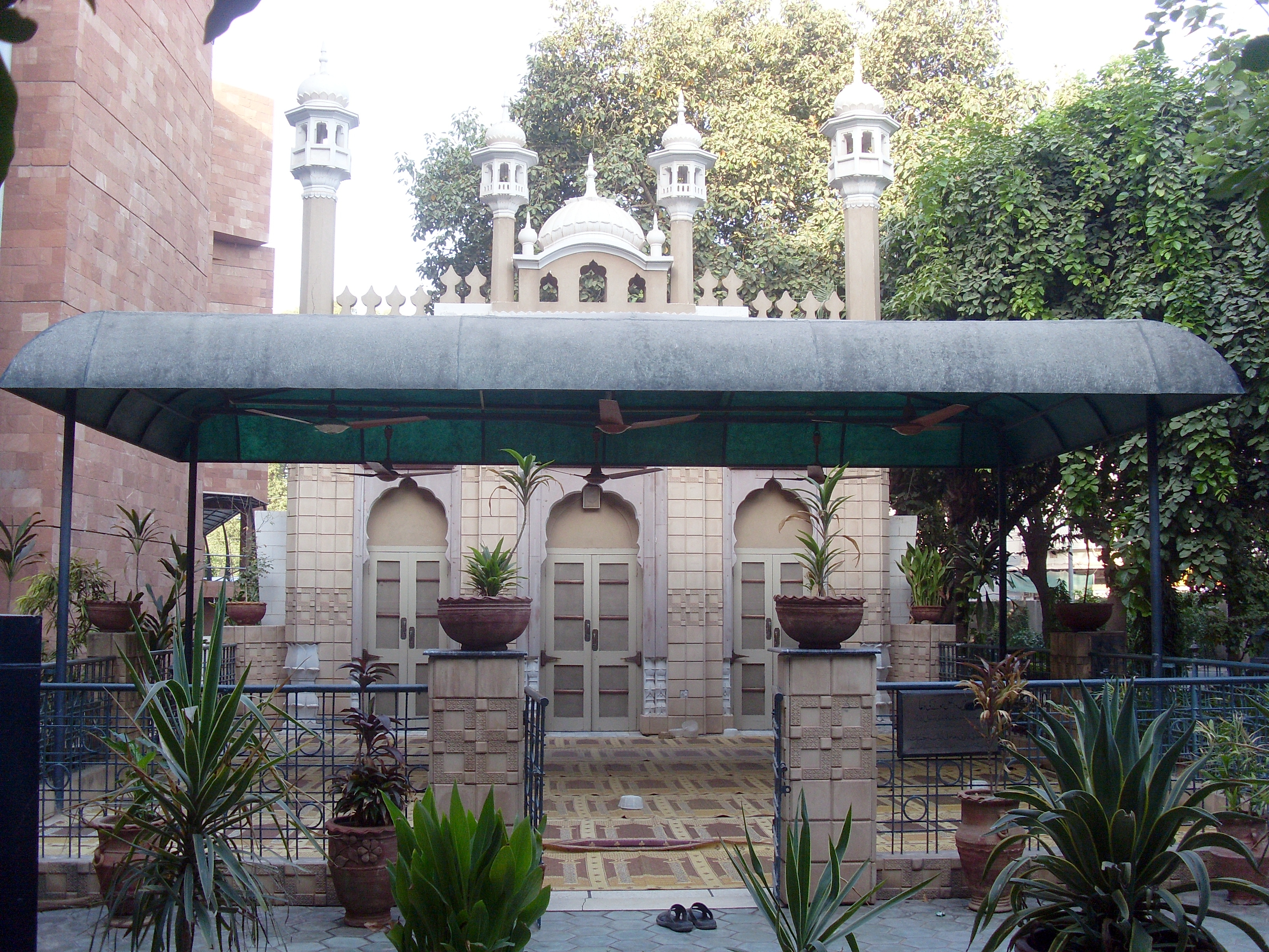 Yadgar Masjid in Rabwah, Pakistan. This mosque was built on the place where first prayer was led by the Second Khalifat ul-Massih, Mirza Bashir ud-Din Mahmood Ahmad.